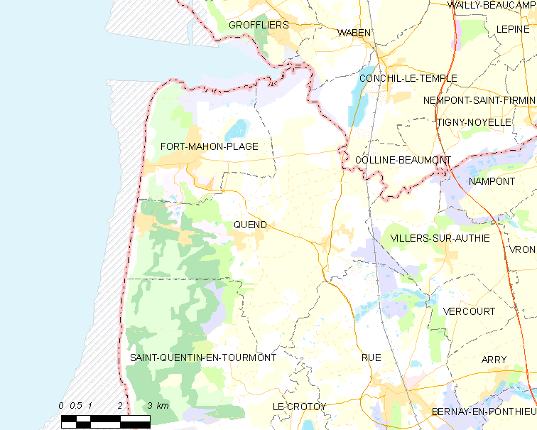 Map of French municipality Quend